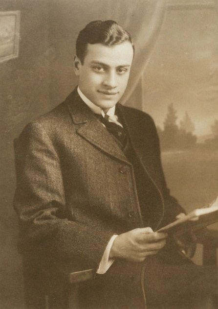 american actor John Davidson - publicity still